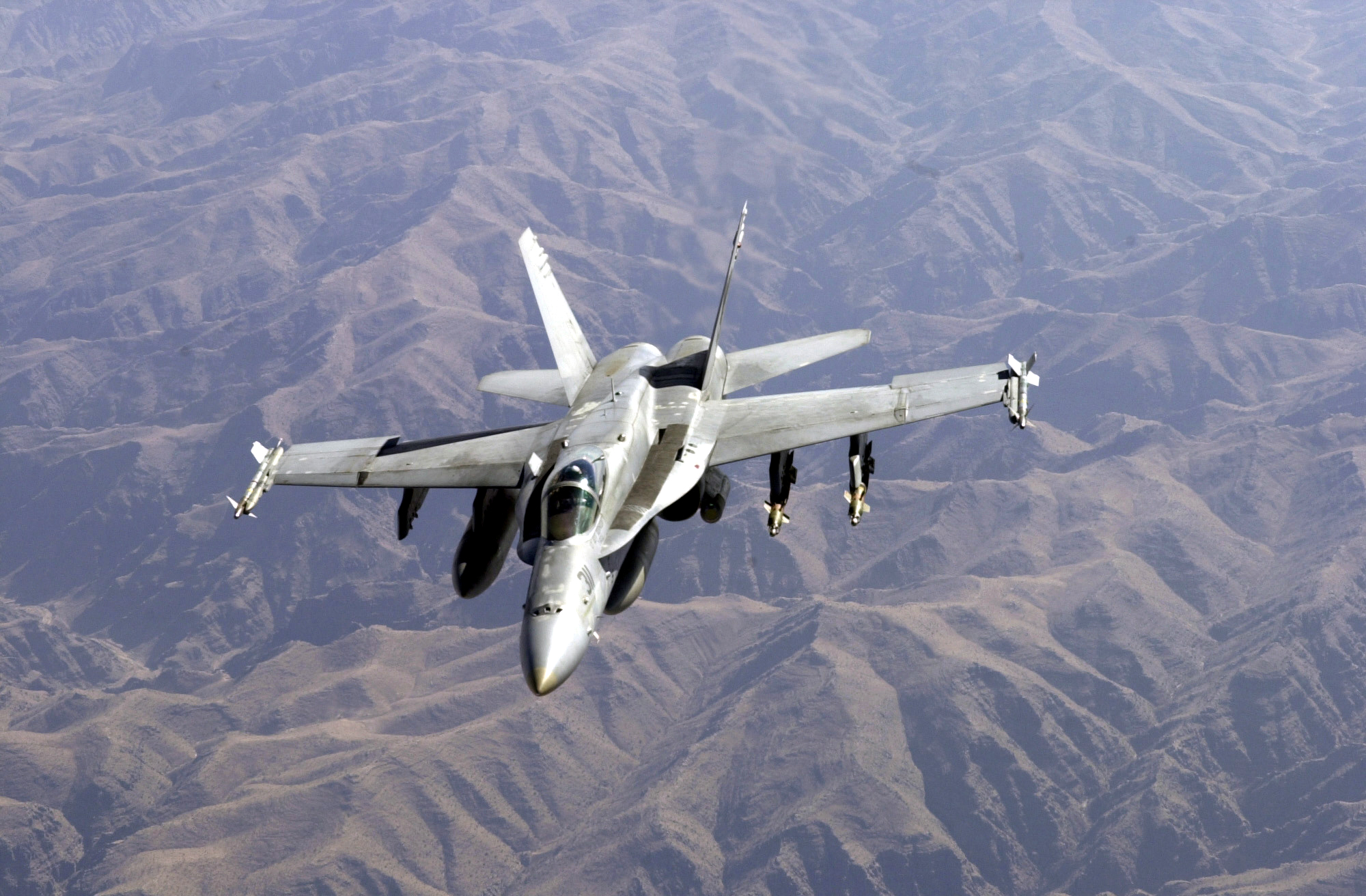 Operation Enduring Freedom, Oct. 26, 2001 -- Following early morning bombing missions, a F/A-18 Hornet moves into the post-contact position during an aerial refueling mission with a KC-135R from the 319th Air Expeditionary Group. The 319th AEG is deployed to a classified location in support of Operation Enduring Freedom. U.S. Air Force Photo by Tech.Sgt Scott Reed. (RELEASED)